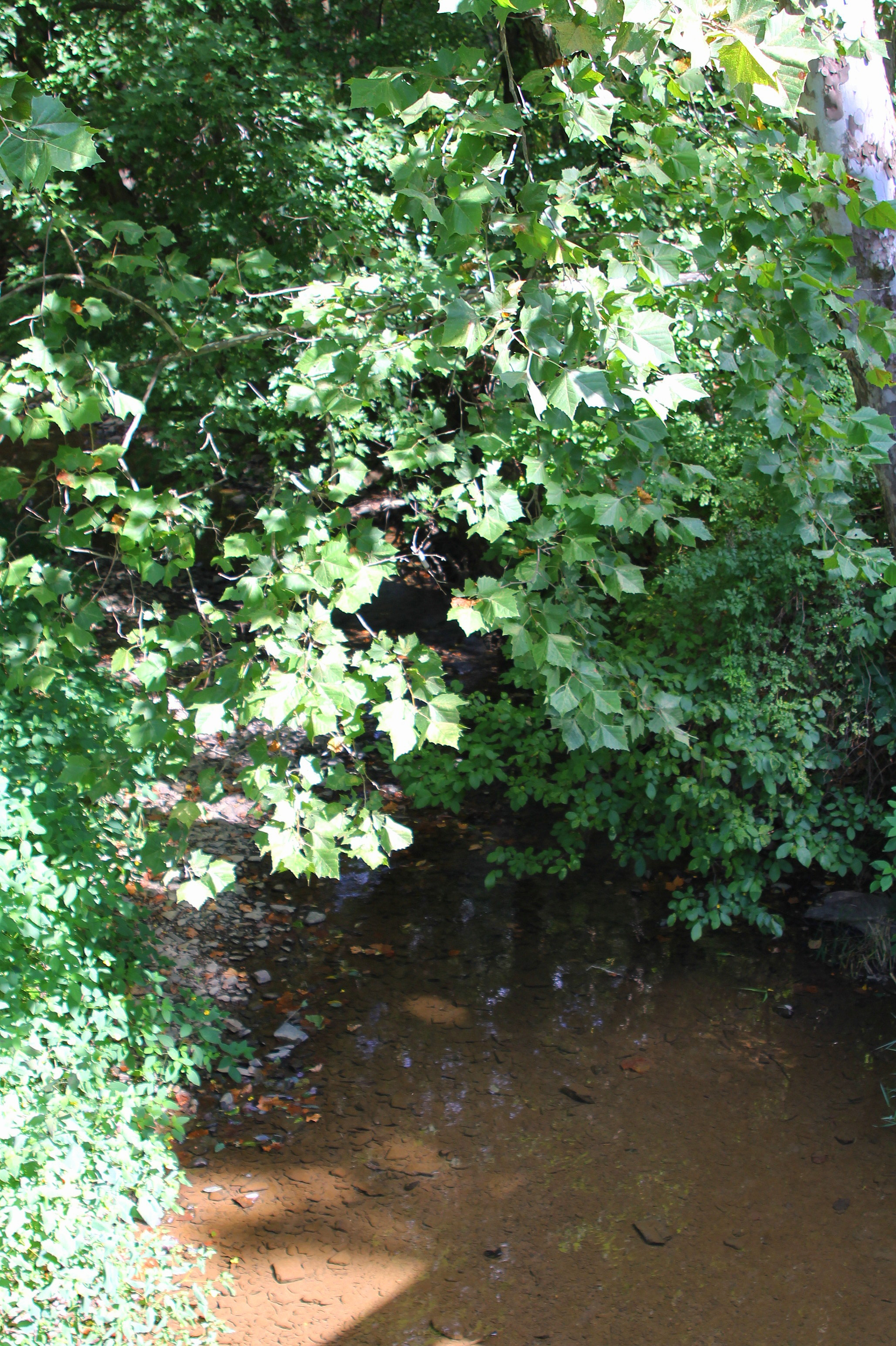 Kipps Run looking downstream in its lower reaches